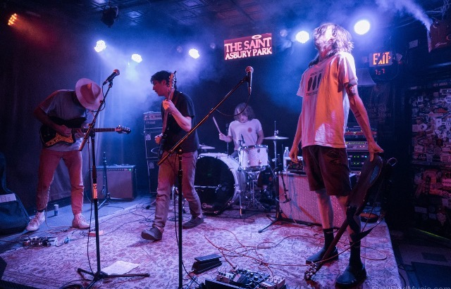 Photo by Cool Dad Music